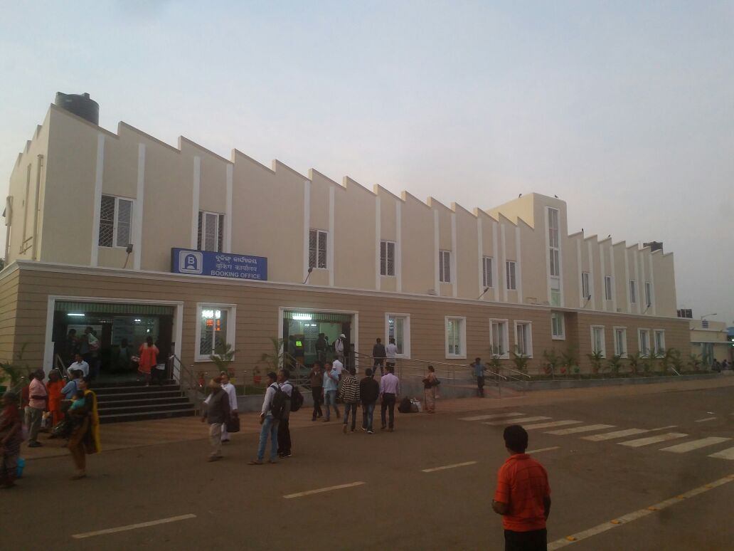 Second entrance to Bhubaneswar railway station towards platform 6